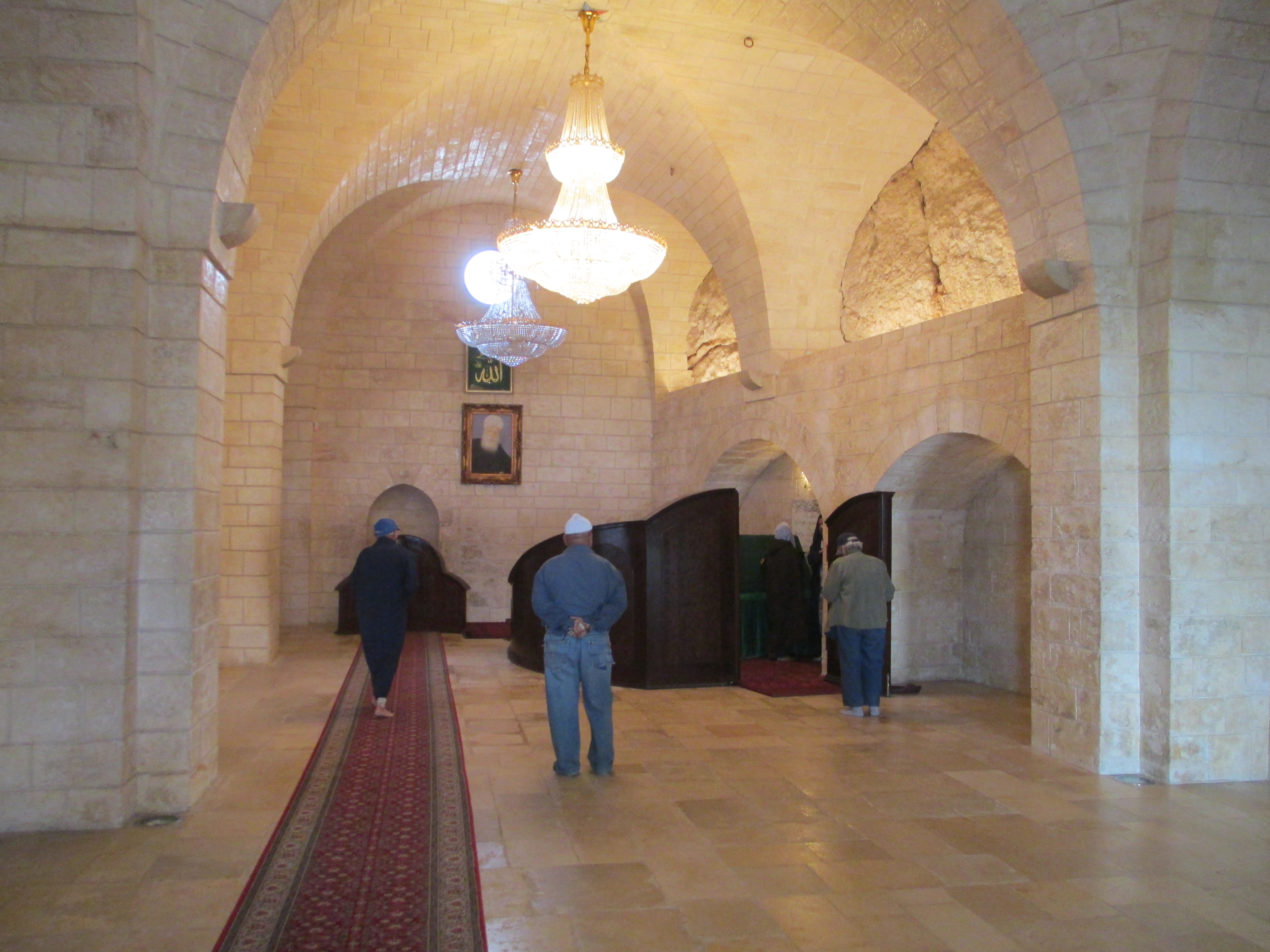 Nabi Shu'ayb